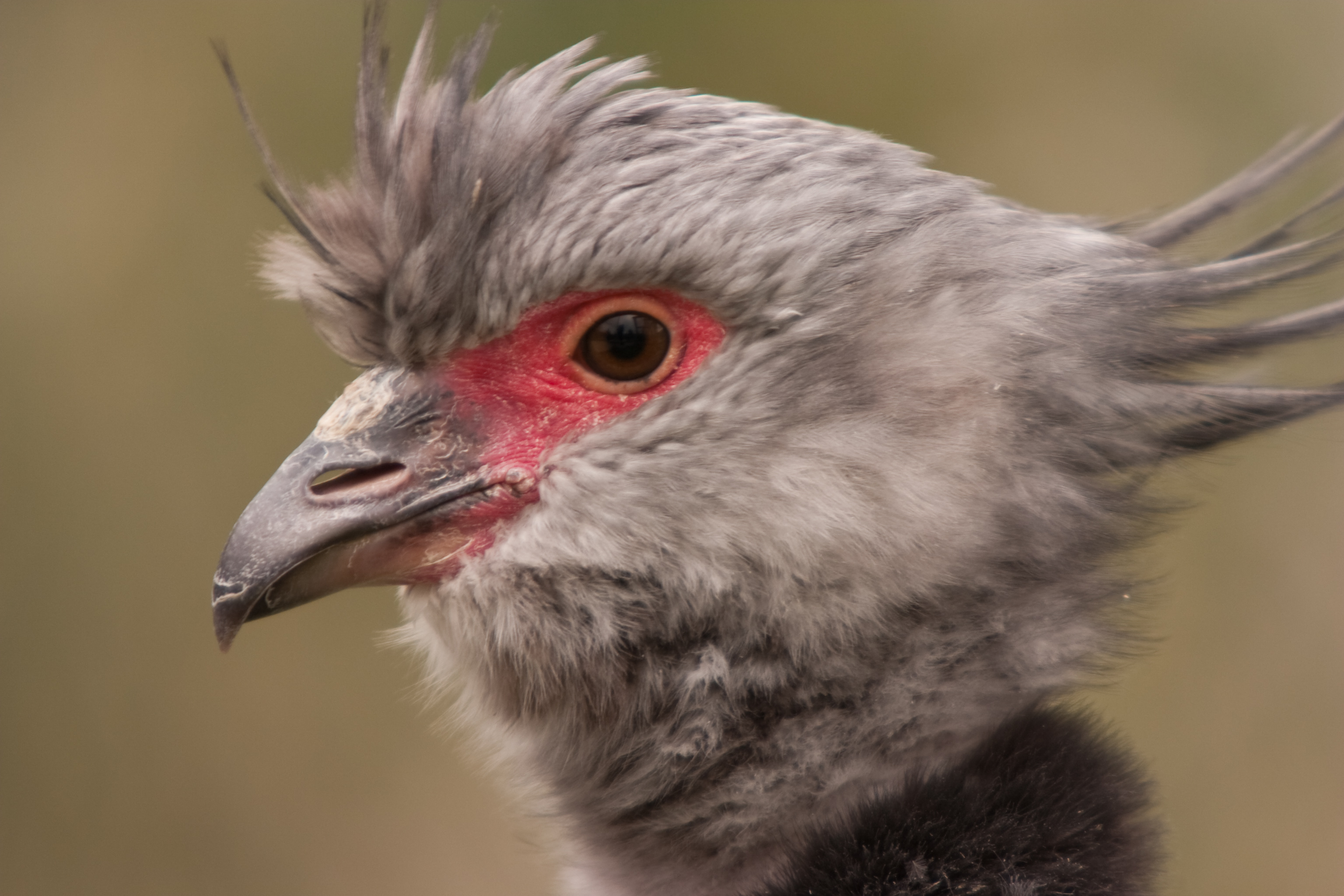 Southern Screamer (also known as the Crested Screamer) at Diergaarde Blijdorp (Rotterdam Zoo), The Netherlands.